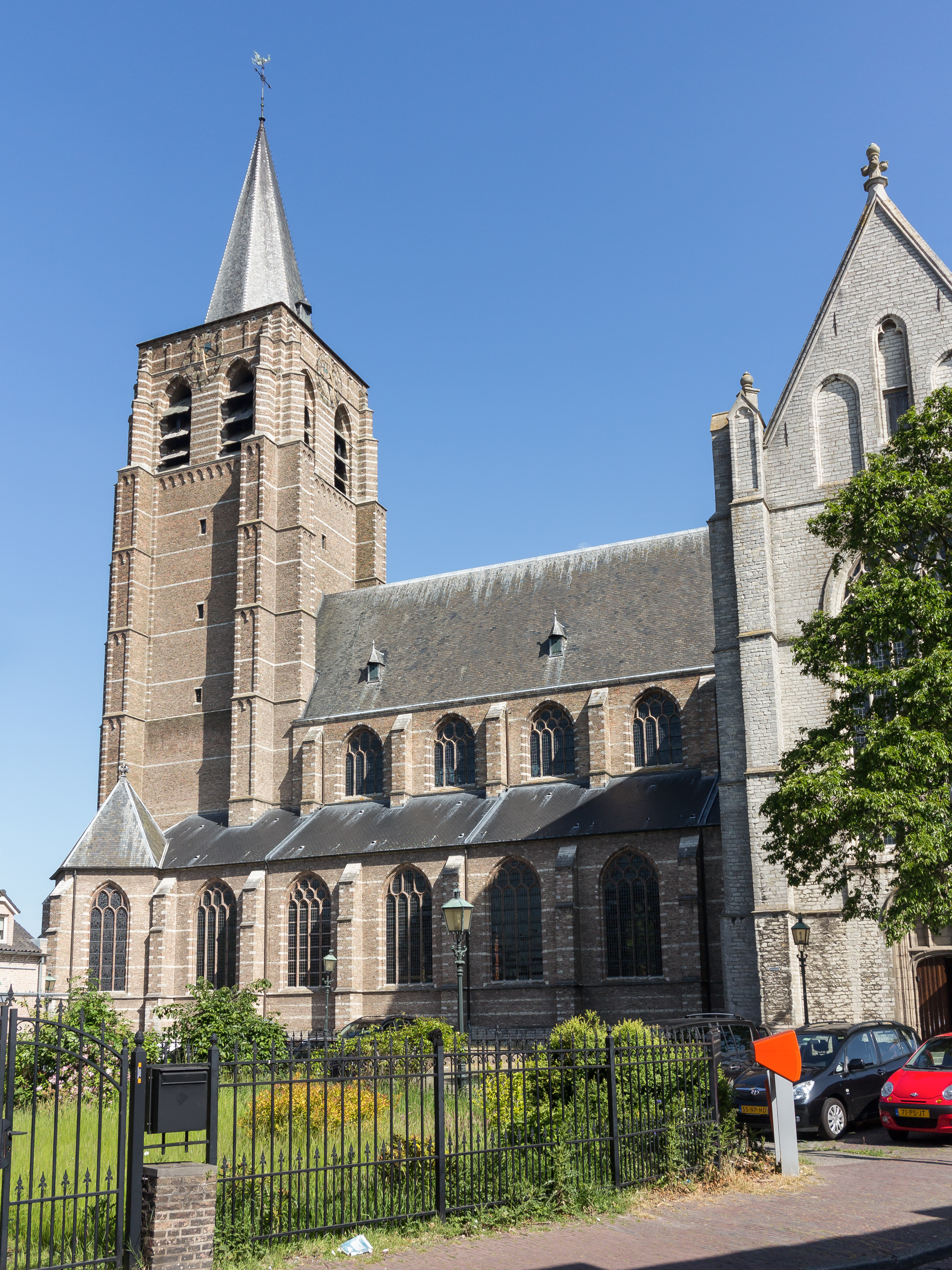 Wouw, windmill: de Sint Lambertuskerk